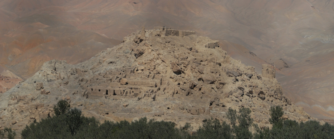 Shahr-e-Gholghola or the 'City of Screams', Taken Sept 9, 200 near Bamyan City, Bamyan Province, Afghanistan. This was the site of 13th Century massacre of the city's population by Mongol conqueror Genghis Khan, avenging the murder of his favorite grandson. If you look closely you can see a few people sitting atop. Those are Afghanistan forces watching the valley. The ruins are riddled with landmines and is a safety hazard for anyone moving around the mound. Photo by William E. Henry